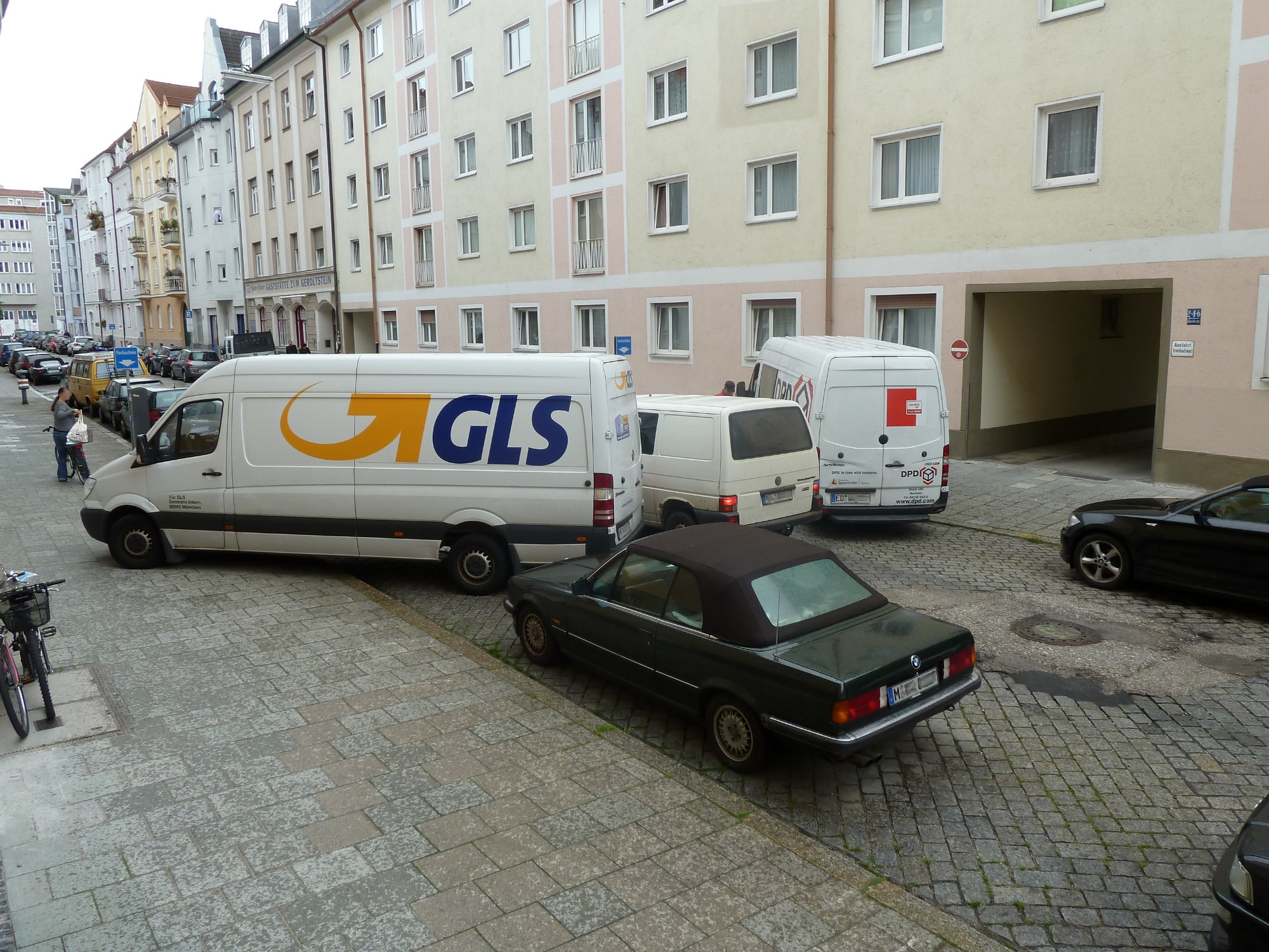 Two Transporter GLS and DPD